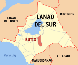 Map of the Lanao del Sur showing the location of Butig